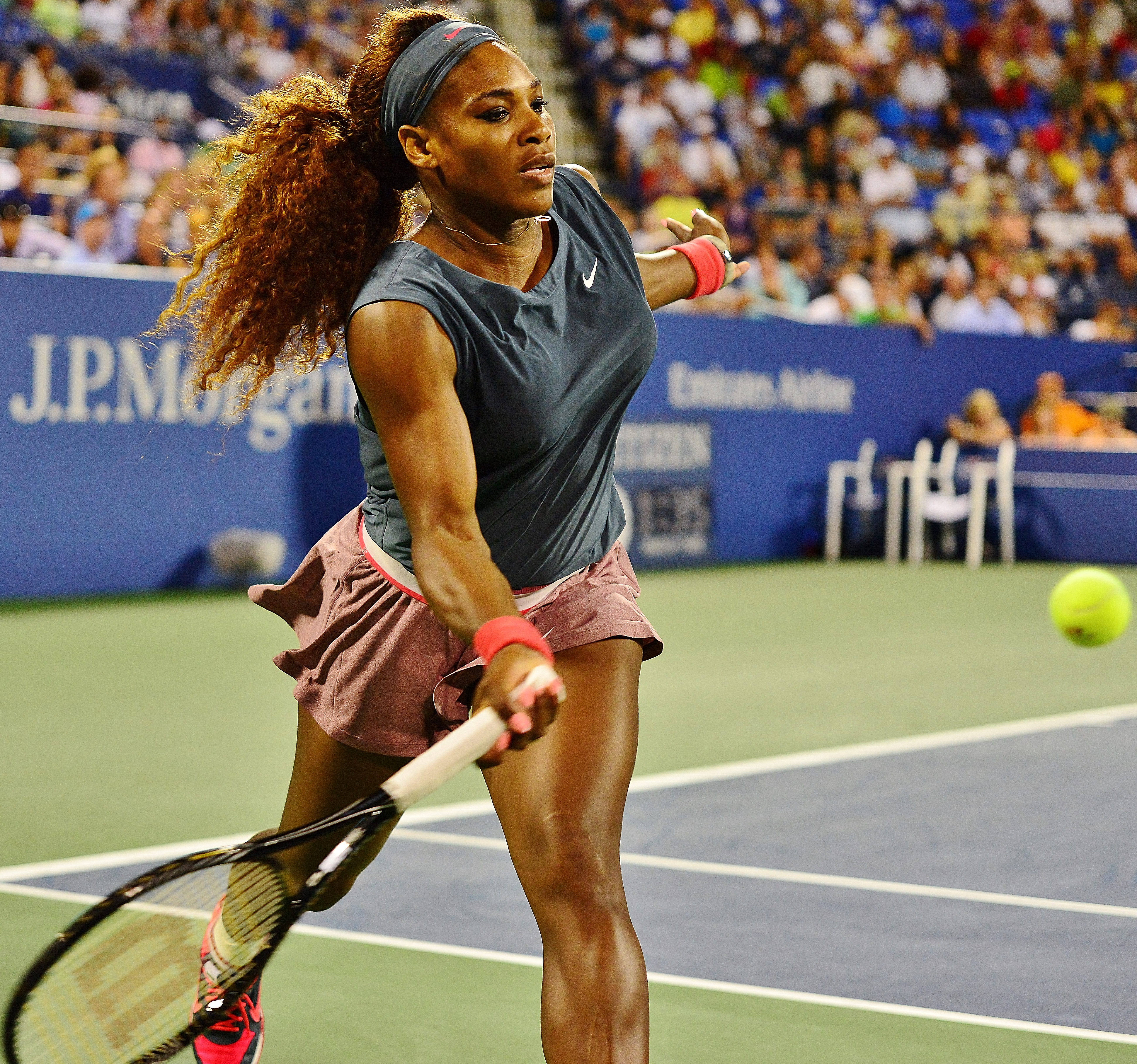 1st round doubles action from the Women's draw at the 2013 US Open. Serena and Venus Williams defeated Silvia Soler-Espinosa and Carla Suarez Navarro; 6-7(5), 6-0, 6-3